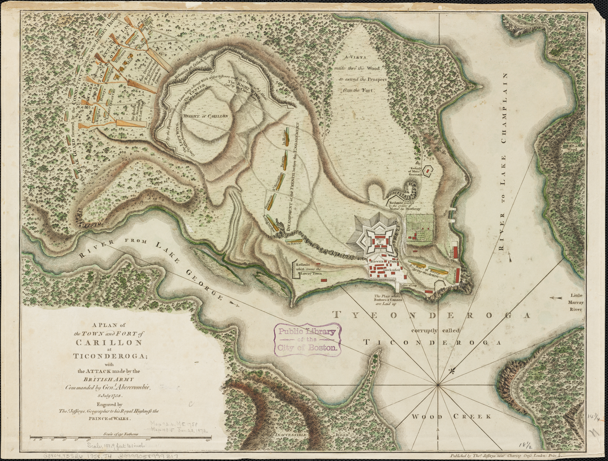 Zoom into this map at . Author: Jefferys, Thomas Publisher: Thos. Jefferys Date: [1758] Location: New York (State) Scale: Scale [ca. 1:1,823] Call Number: G3804.T5S26 1758.J4